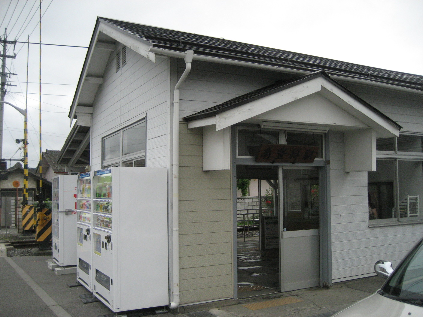 JR East Minami-Toyoshina Station